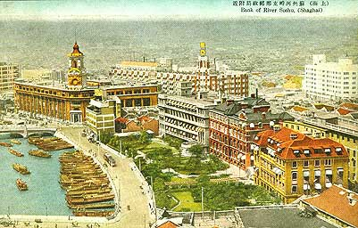 North bank of the Suzhou Creek, Shanghai in the 1930s